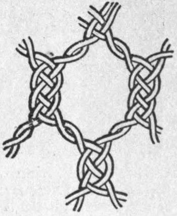 Fig. 39.--Ordinary Mechlin mesh. Illustration from 1911 Encyclopædia Britannica, article Lace.